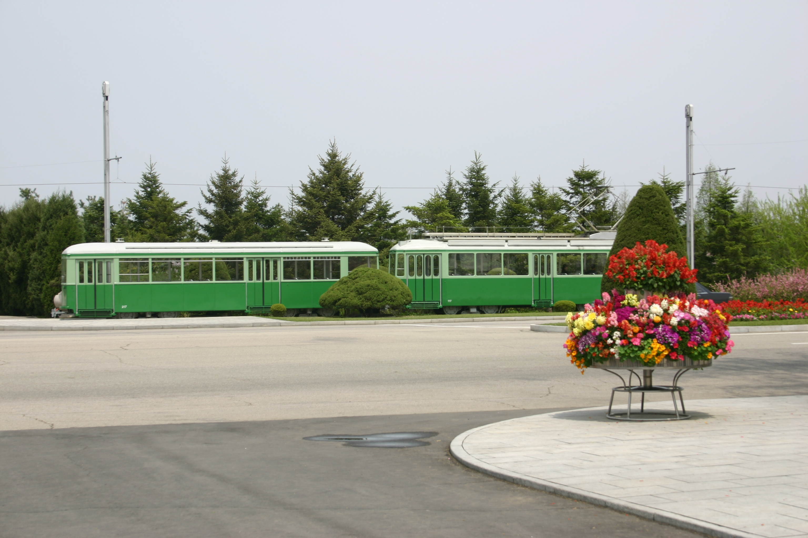 Tram VBZ Be 4/4 Type Ib (nickname Kurbeli) in Pyongyang, DPRK – originally in use in Zurich, Switzerland. Trams of this type are used only on the tram line to the Kumsusan Palace of the Sun (or Kumsusan Memorial Palace), which is separate from the rest of the Pyongyang tramway network and uses a different track gauge (metre gauge, Zürich's gauge).